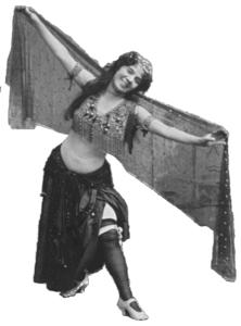 Little Egypt Belly Dancer (Photographer Benjamin Falk 1890's)